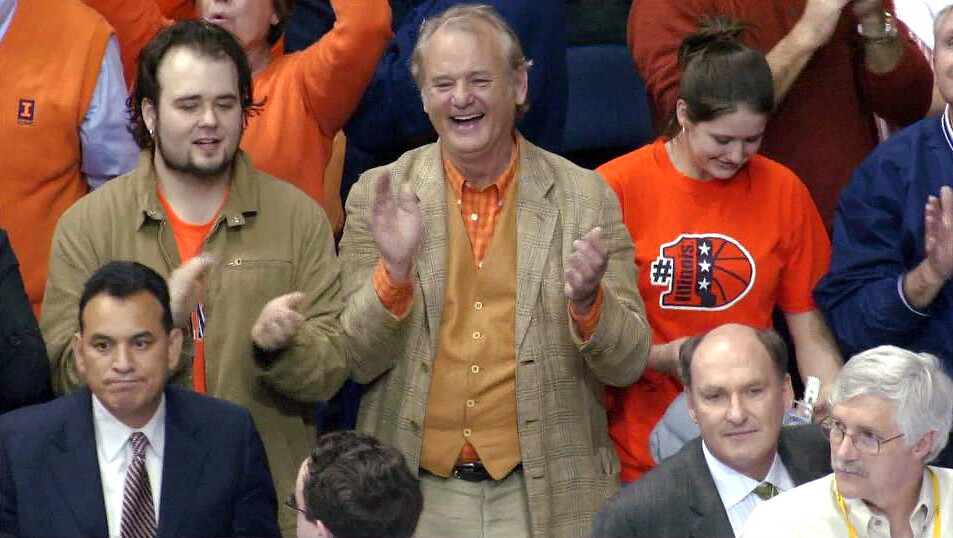 Bill Murray and his son Homer cheering for the Illinois Fighting Illini men's basketball team at the 2005 Men's NCAA Final Four in St. Louis